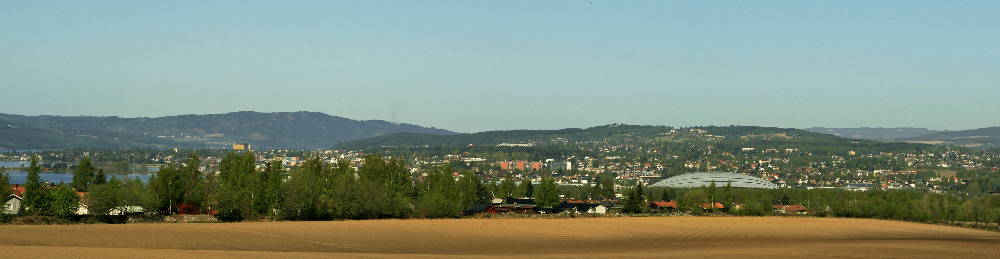 Hamar, Norway. View from south.